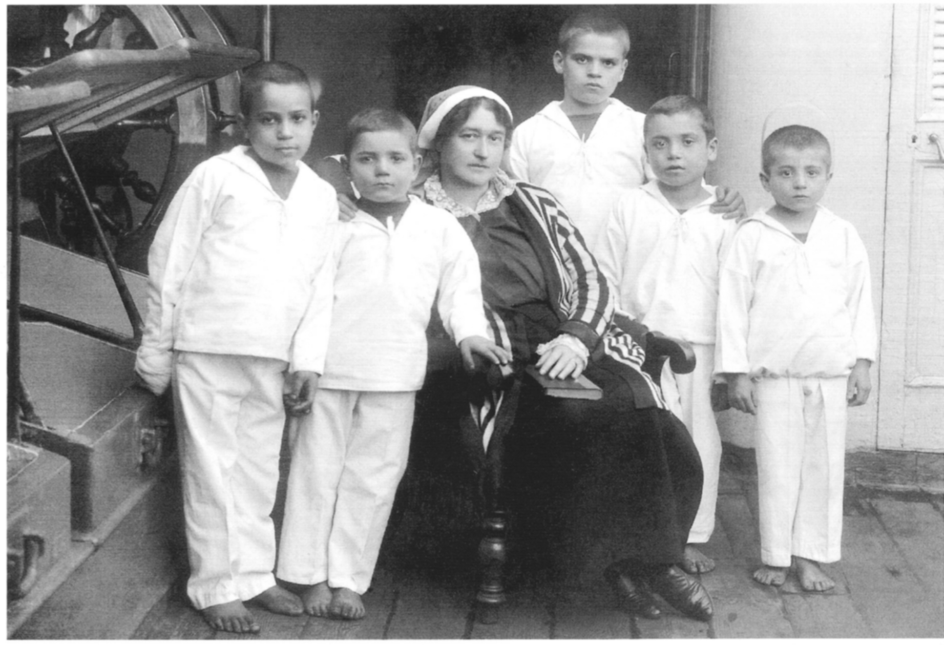 Giulia Civita Franceschi with five boys on the kindergarten ship Caracciolo